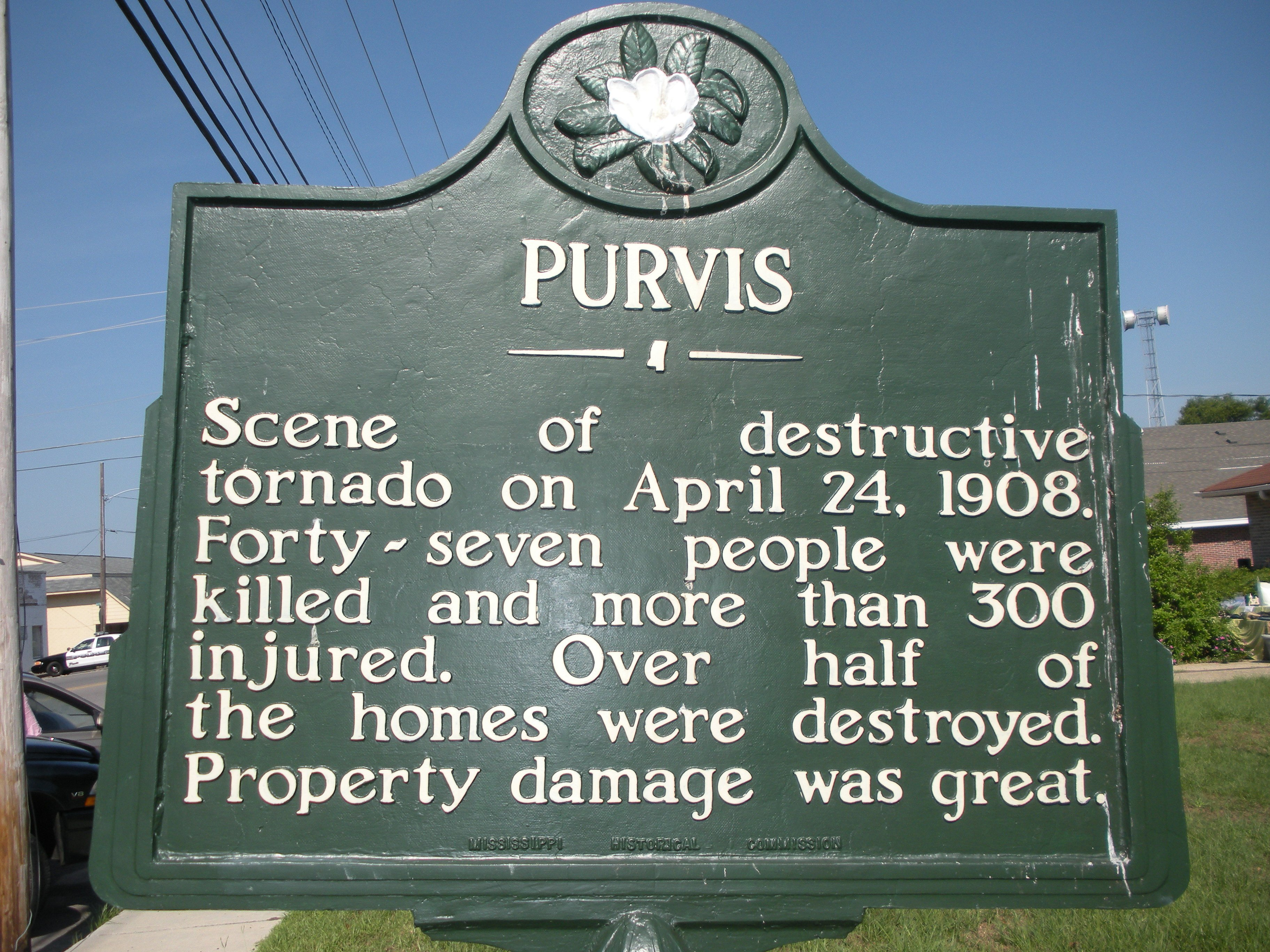 Historical marker in front of the Purvis Public Library.